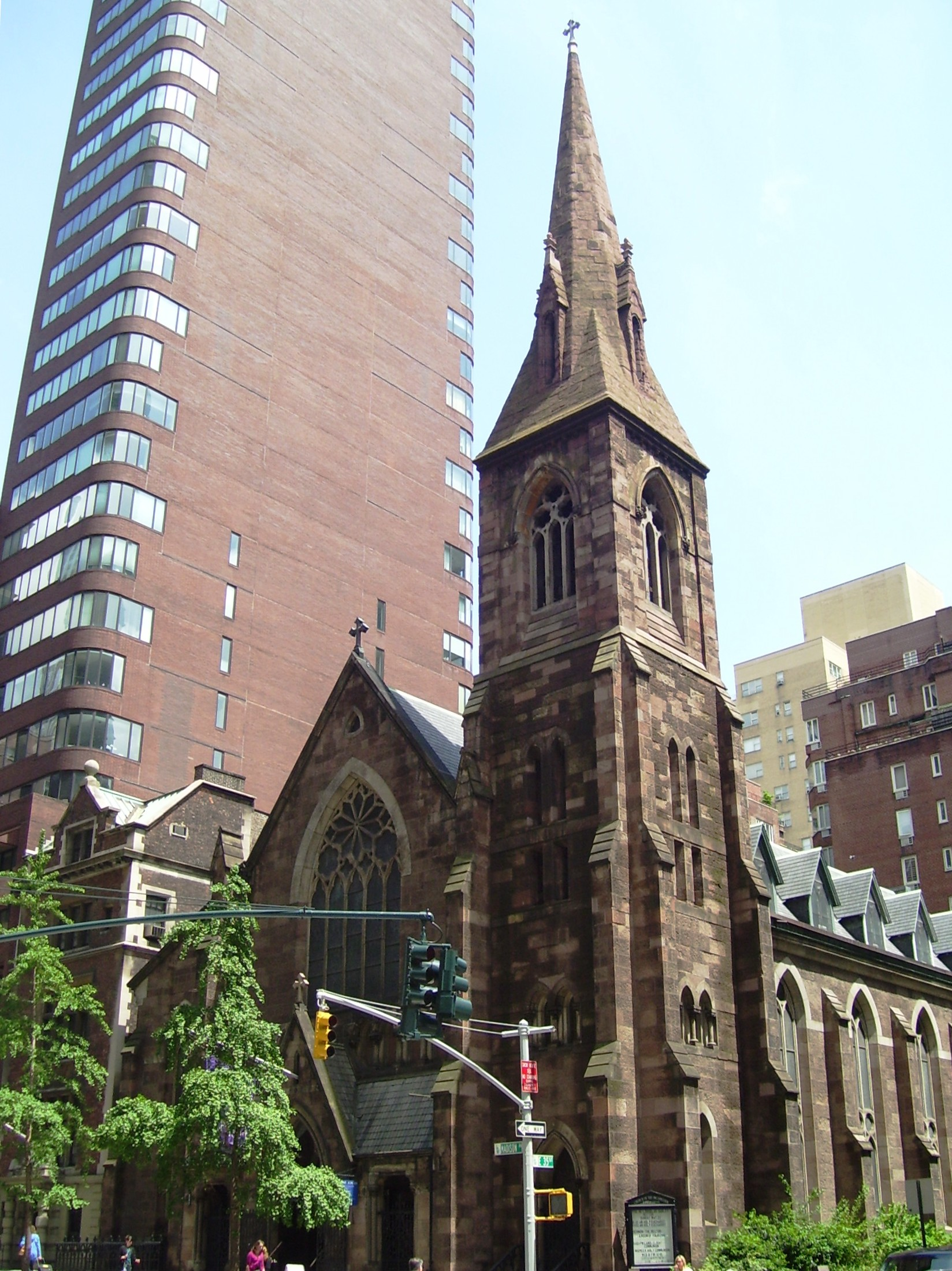 The Church of the Incarnation, Episcopal (Manhattan) is located at 205-209 Madison Avenue at the corner of 35th Street in the Murray Hill neighborhood of Manhattan, New York City. The church was built in 1864-65 and was designed by Emlen T. Littel in Gothic revival style. It was burned down in a fire in 1882 and was rebuilt and expanded by David Jardine, with a spire added in 1896 by Heins and LaFarge to Jardine's design. The rectory, now used as a parish house, was built in 1868-69, designed by Robert Mook, and was rebuilt and given a new facade in neo-Jacobean style in 1905-06 by Edward P. Casey. The bulding was renovated in 1991 by Jan Hird Pokorny. It is a NYC landmark and on the National Register of Historic Places. (Sources: AIA Guide to NYC (4th ed.), Guide to NYC Landmarks (4th ed.) and From Abyssinian to Zion (2004))